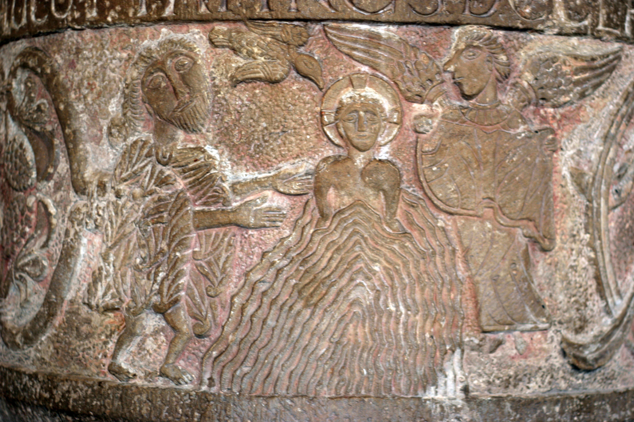 Baptismal font from around 1150 in Dalby kyrka, Sweden. The relief depicts the baptism of Jesus.